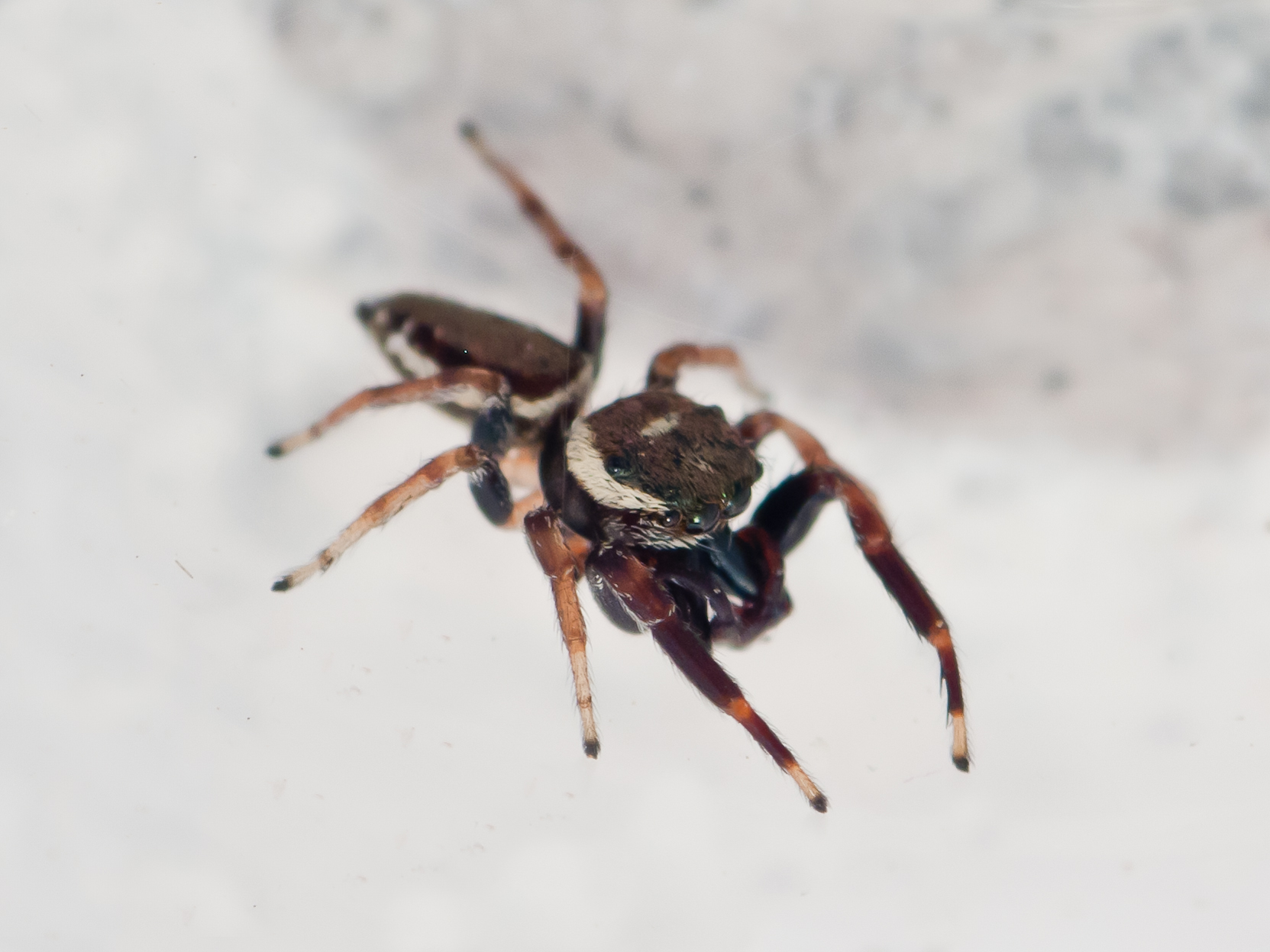 Jumping spider (Messua limbata), Quintana Roo, MéxicoGalego: Araña, Quintana Roo, México Determinada en por Julio Cesar Estrada